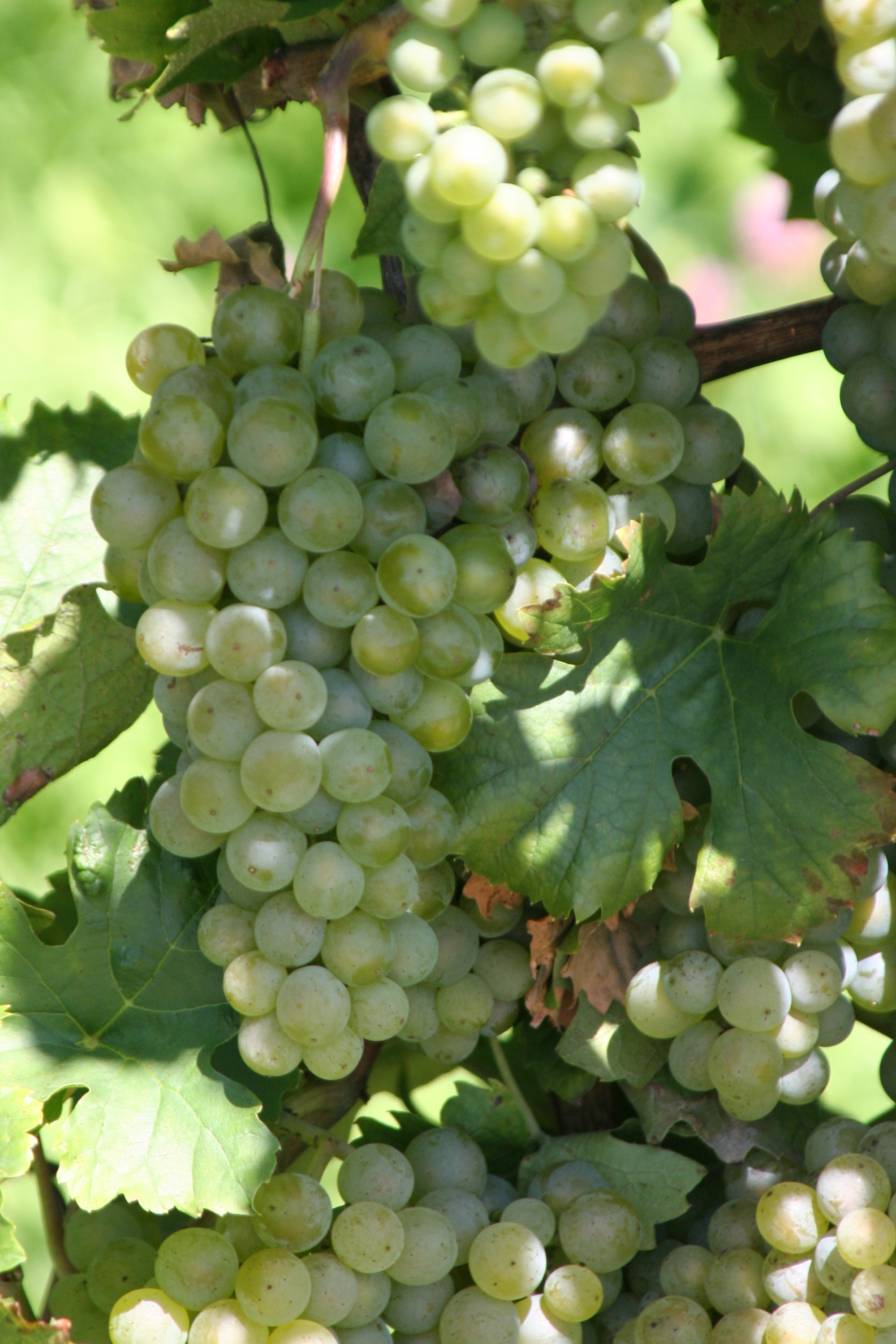 Grapes and leaves of the grape variety Müller-Thurgau, photographed at the viticulture trail on the Schemelsberg hill in Weinsberg